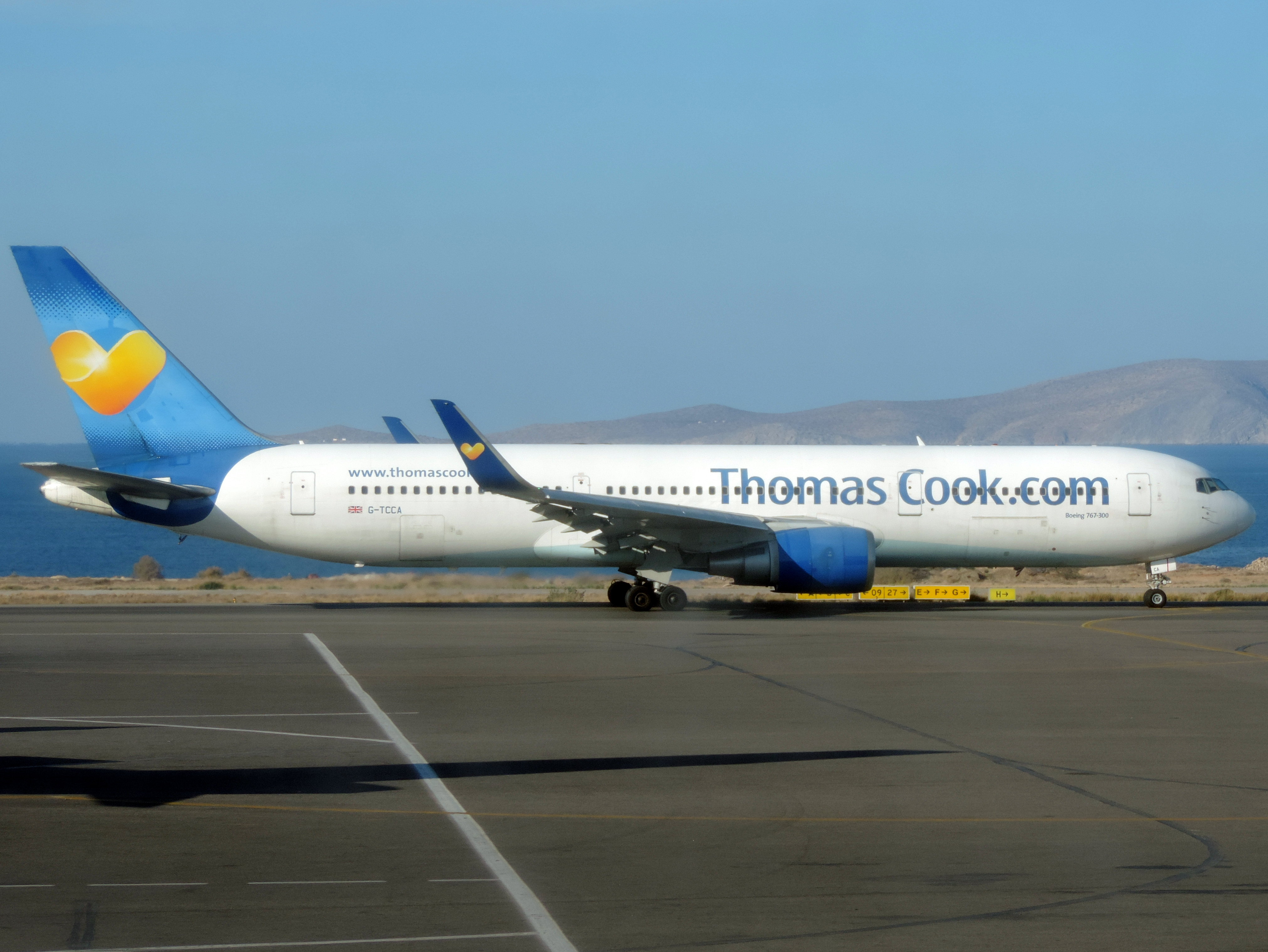 G-TCCA, Thomas Cook Airlines Boeing 767-31K(ER), at Nikos Kazantzakis International Airport, Heraklion airport.